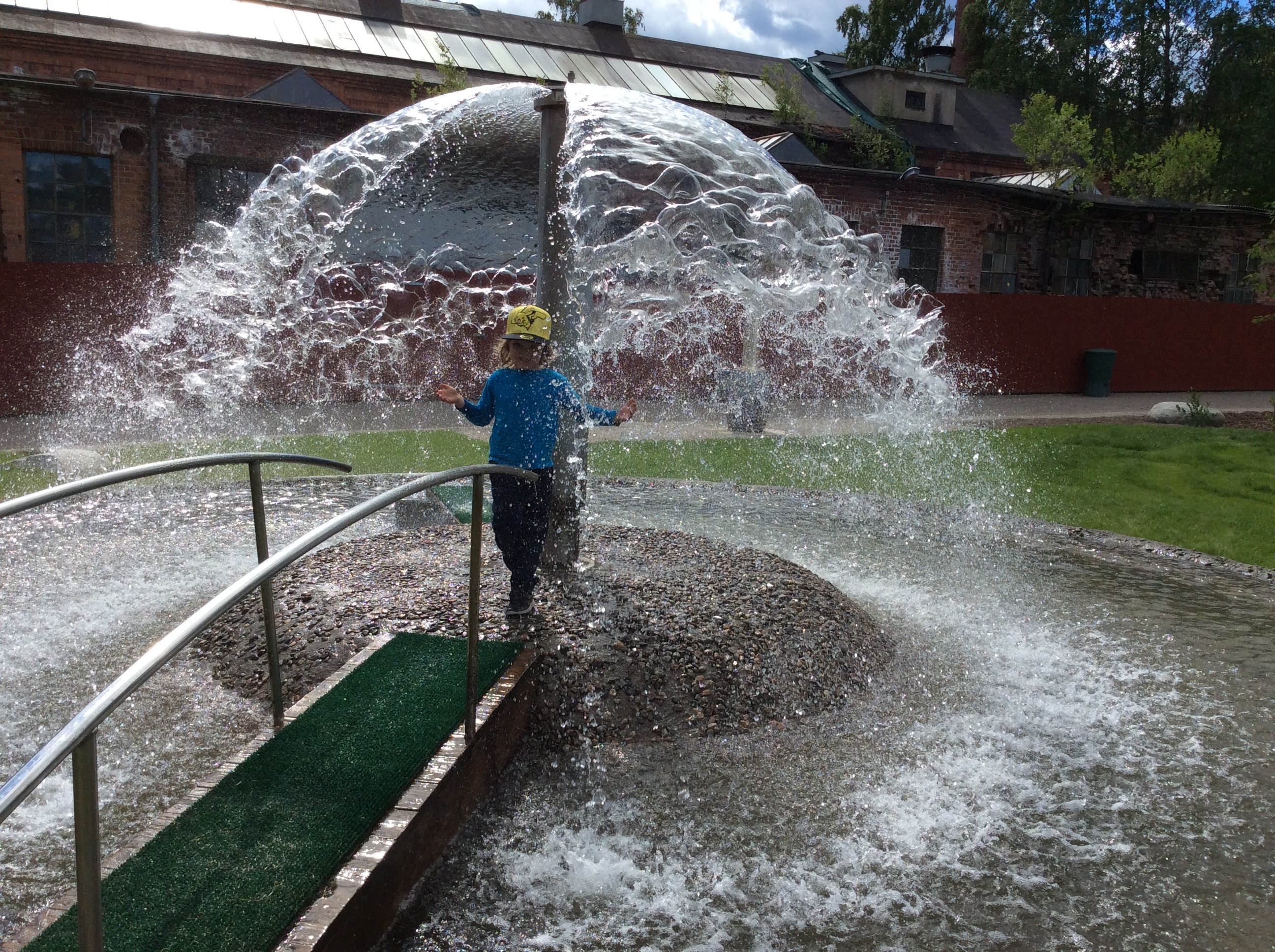 Fountain at Tom Tits Experiment at Södertälje